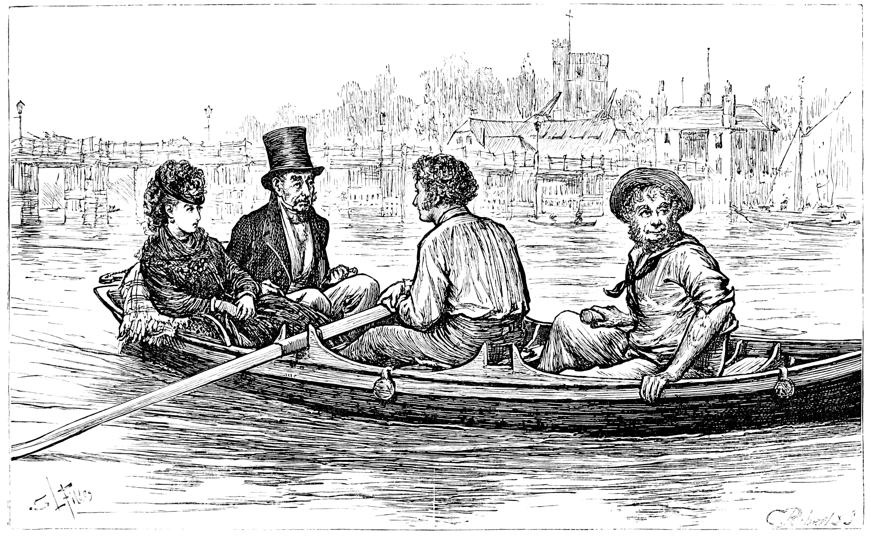 Illustration from the book, The Mystery of Edwin Drood, written by Charles Dickens, illustrated by Luke Fides